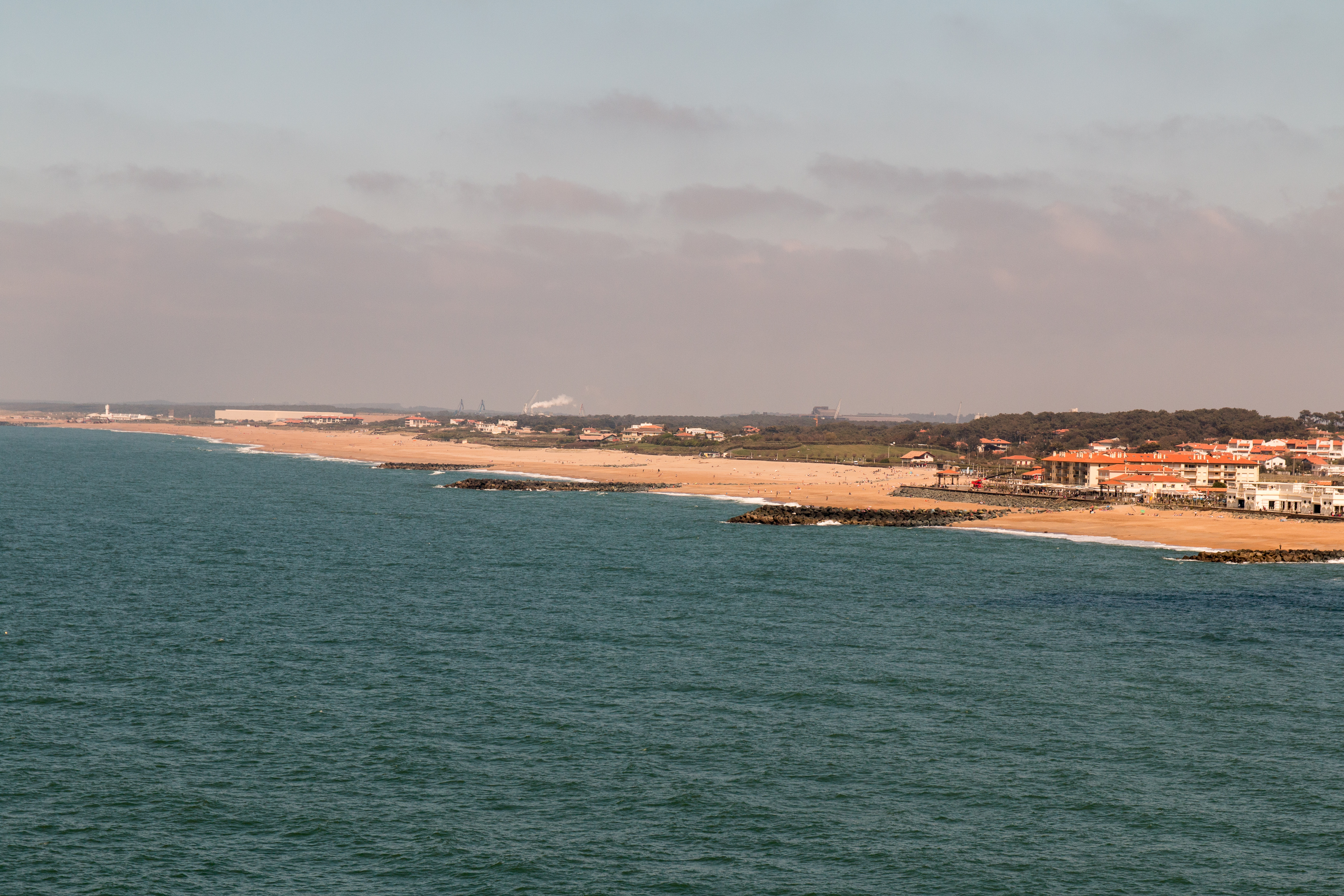 The beaches' dunes of the Côte d'Argent, eroded by winter storms of the first months of 2014.